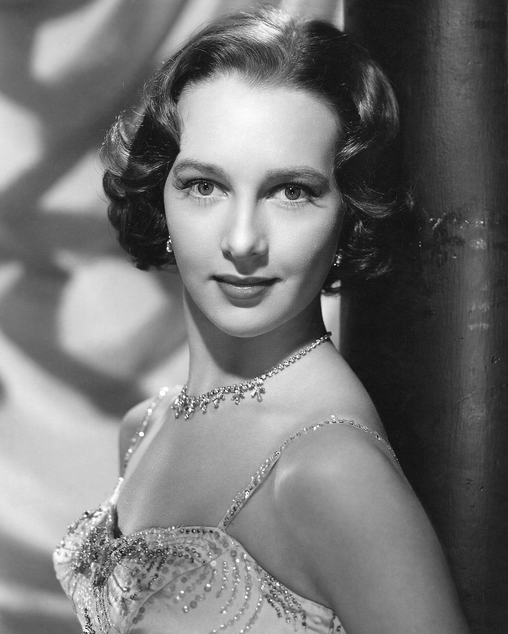 american-finnish actress Taina Elg - publicity still (cropped)